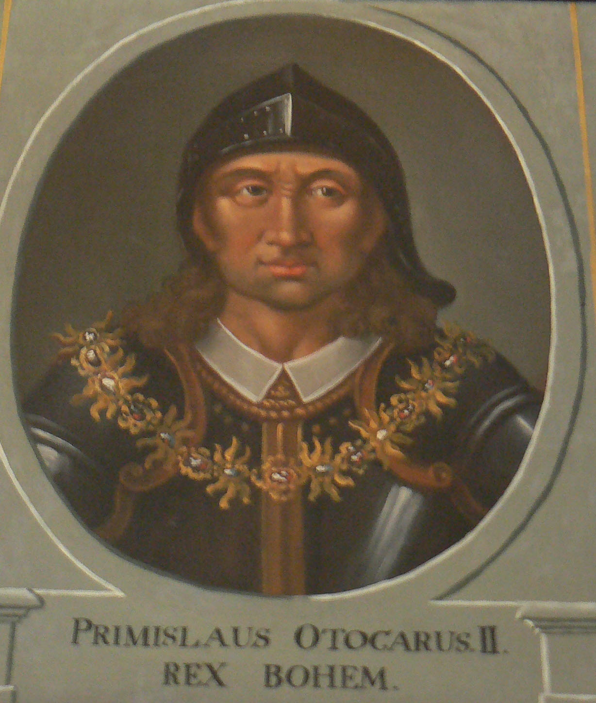 Ottokar II Premysl